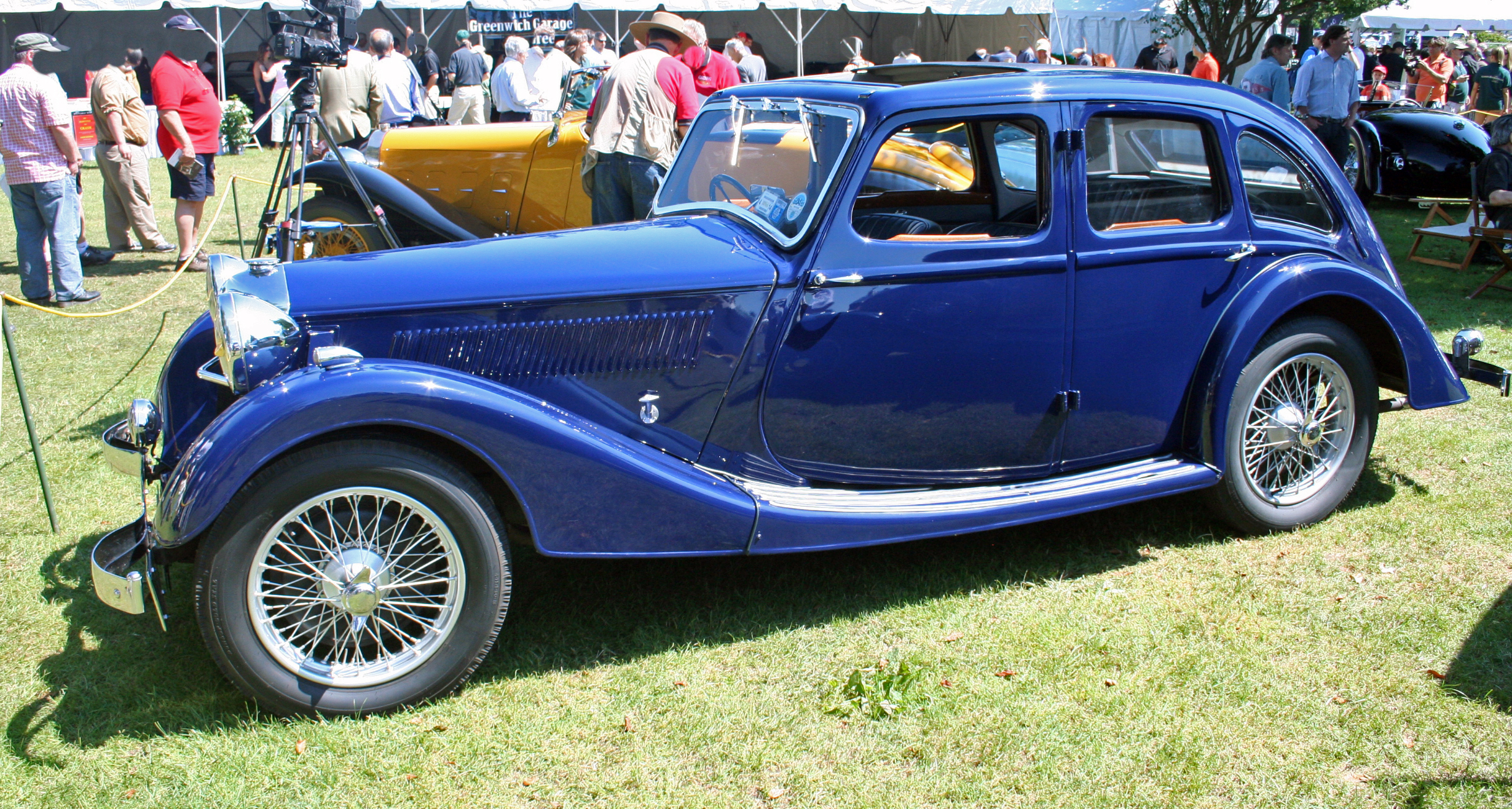 1937 Riley 1½ Kestrel Sprite 4-door fastback saloon at the 2012 Greenwich Concours d'Elegance. With 51 bhp on tap, one of these babies can reach 78 mph (117 kmh).